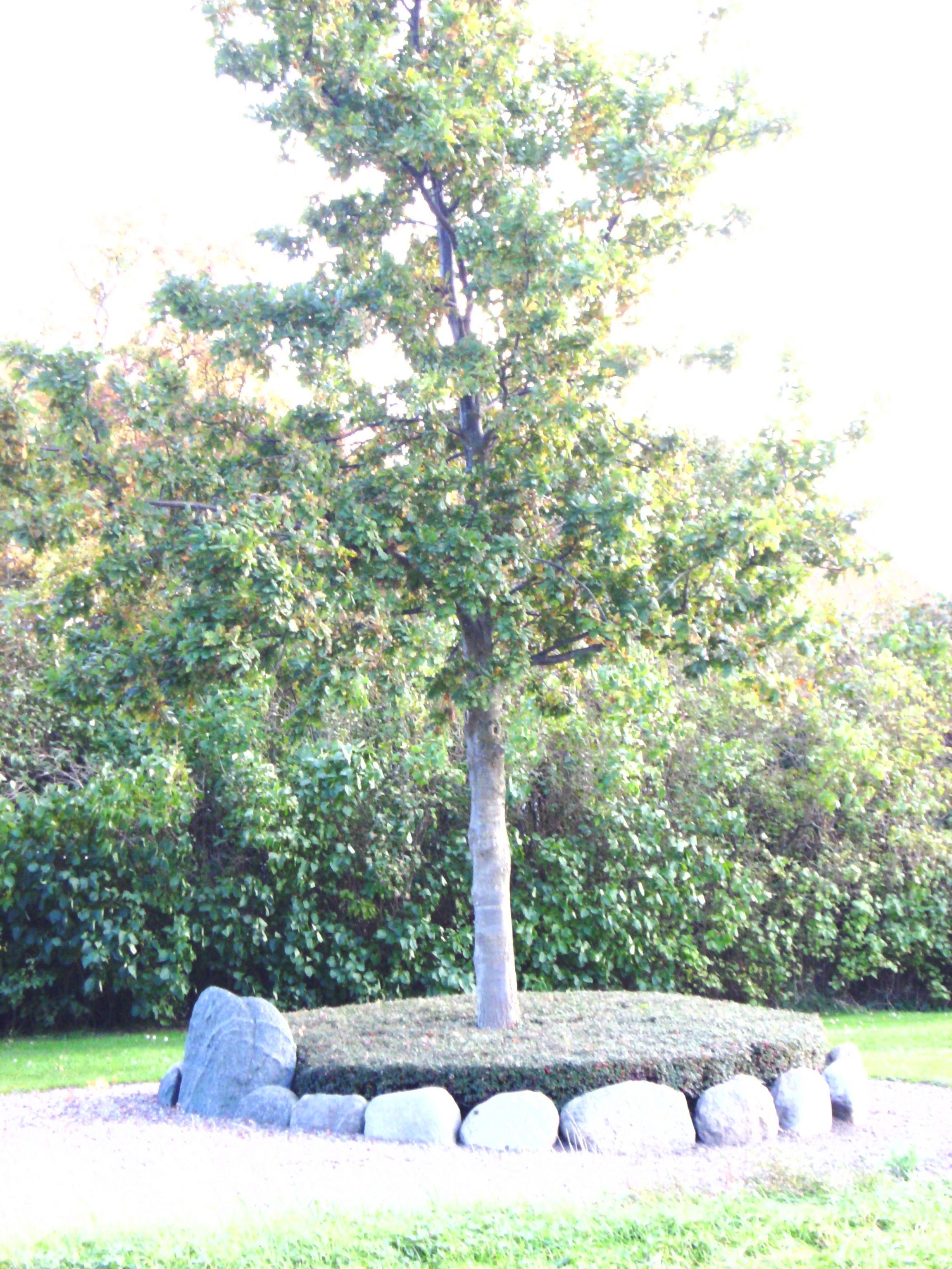 Village meeting place